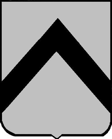 Savorgnan family coat of arms